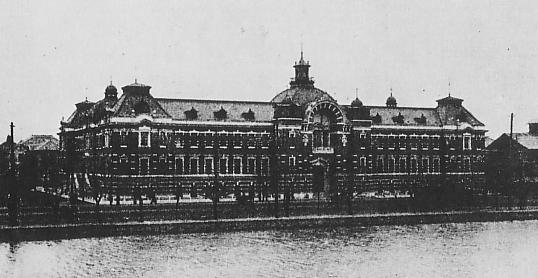 TMPD building in Taisho era